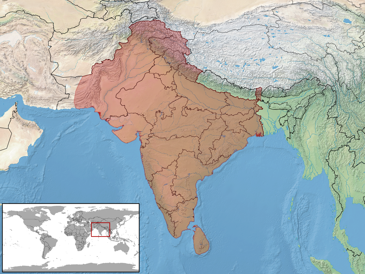 geographic distribution of Sitana ponticeriana (Native: India; Pakistan; Sri Lanka)